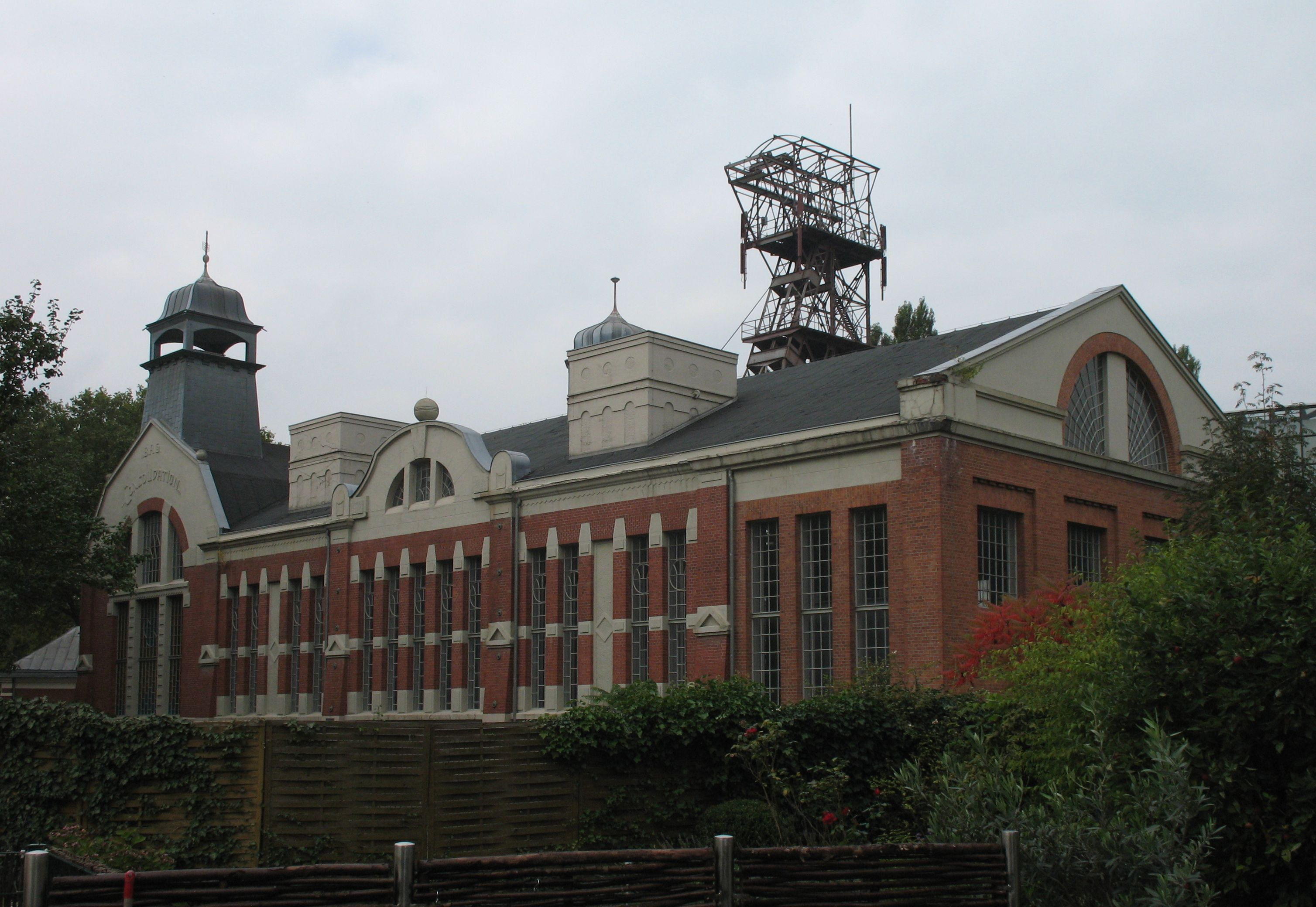 Machinery hall at "Oberschuir" shaft of the "Consolidation" colliery in Gelsenkirchen-Feldmark, North Rhine-Westphalia, Germany